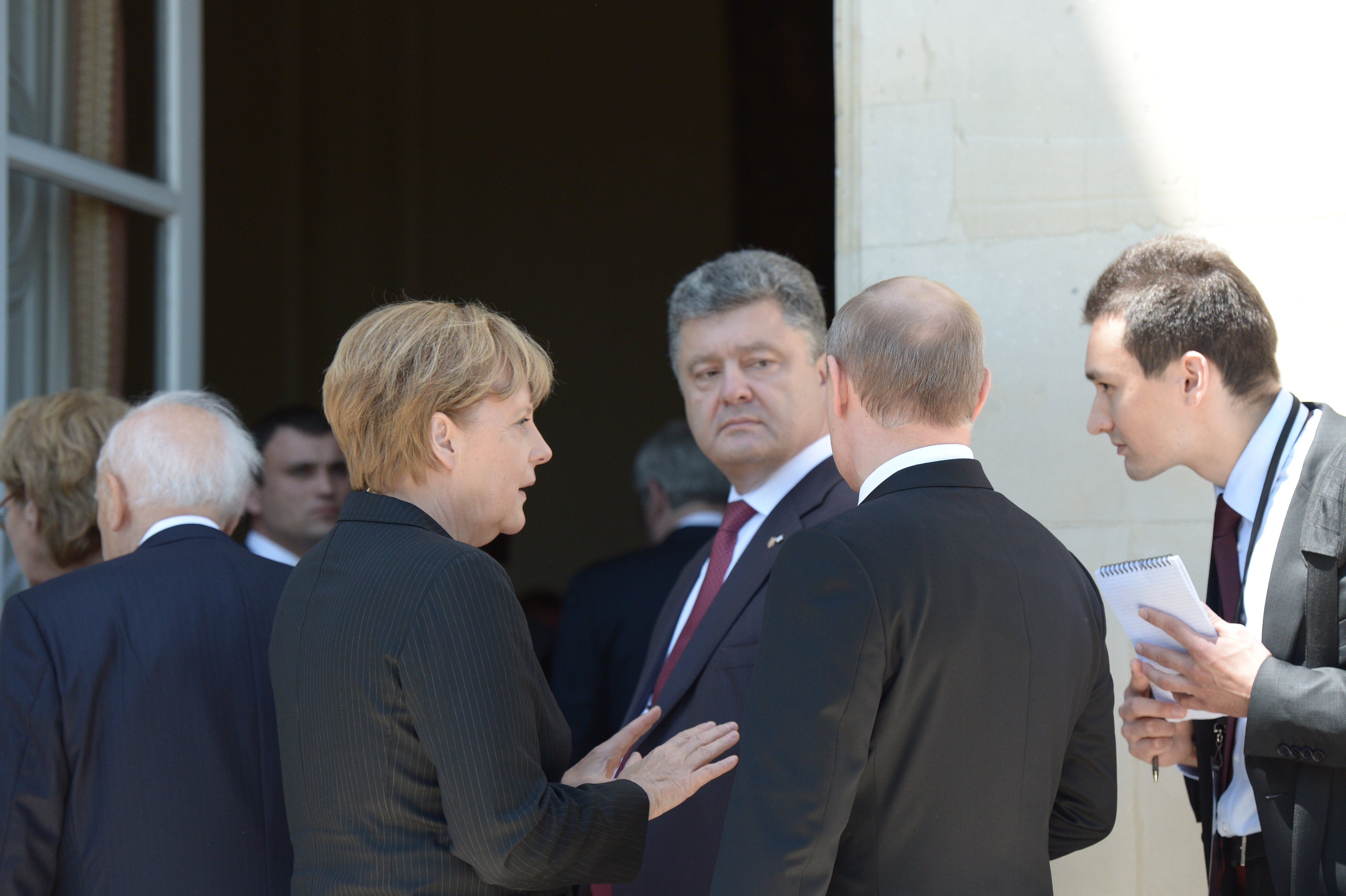 Vladimir Putin at celebrating the 70th anniversary of D-Day (2014-06-06)